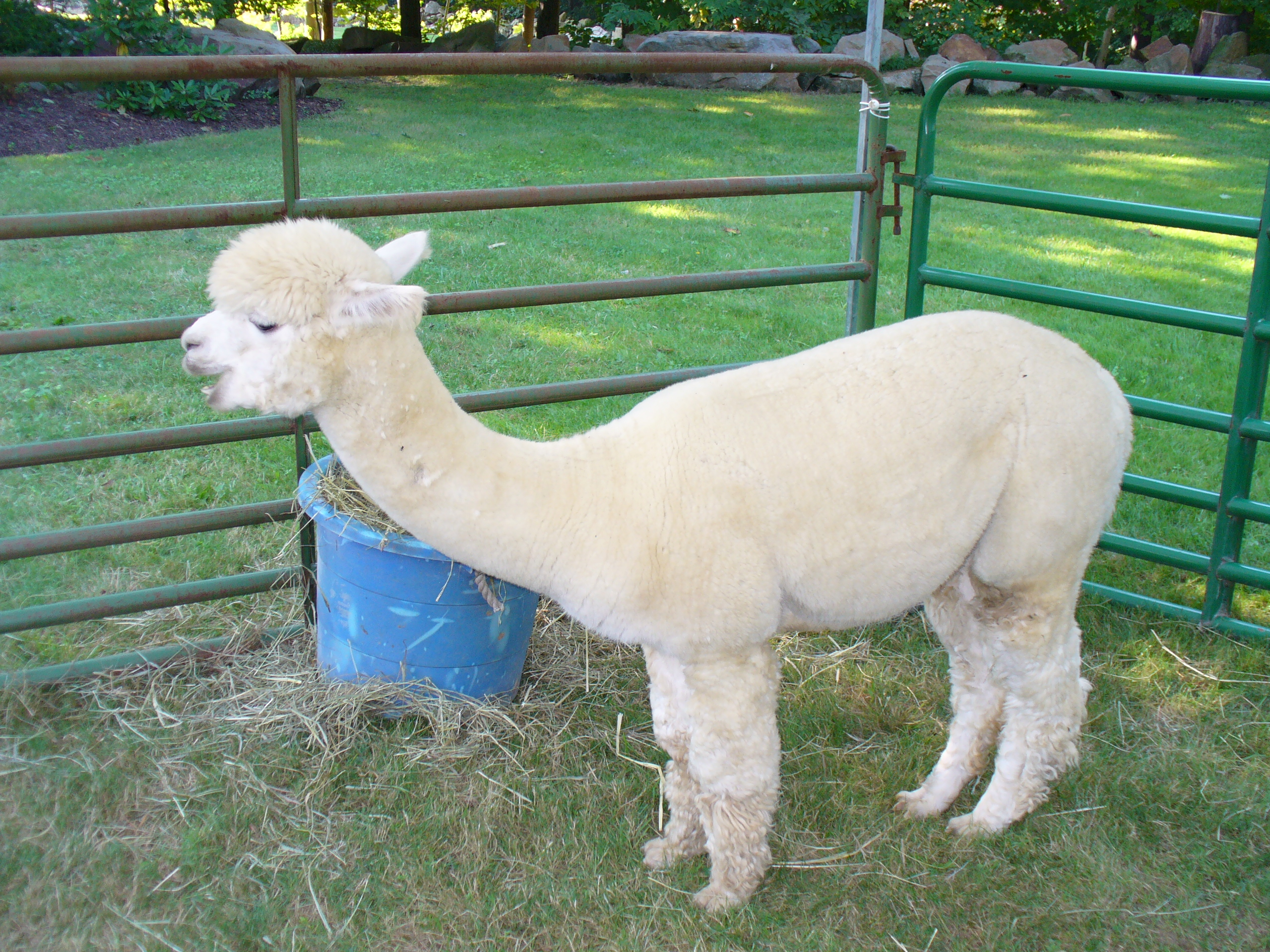 Alpaca in Rose Hill Farm, Chardon, Ohio, USA.